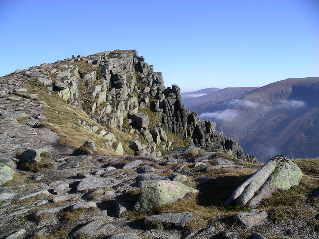 Approach to Sgor Gaoith The last 150m to the 1118m summit. Cairn Gorm can be seen to the right.